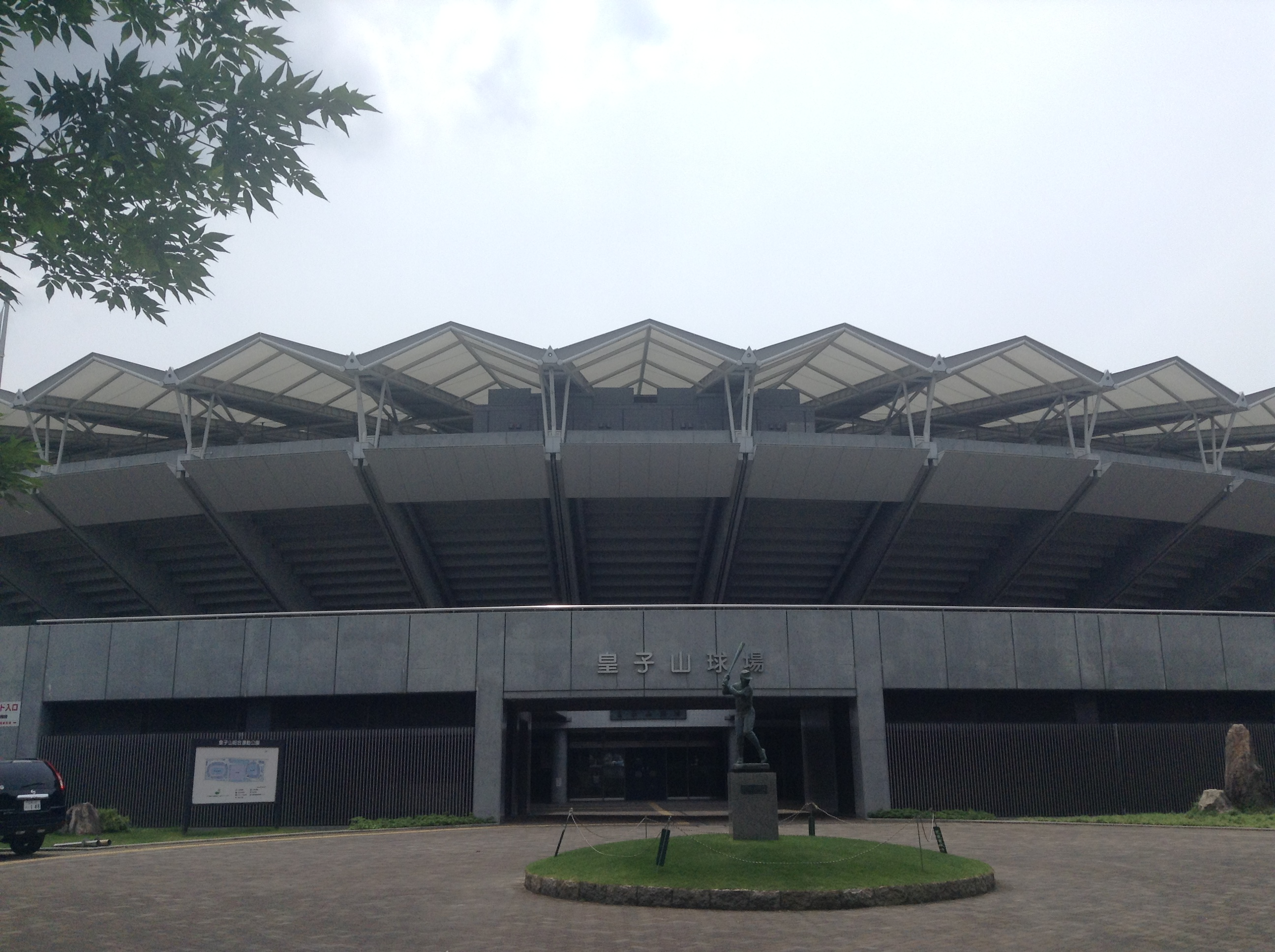 Ojiyama Baseball Stadium